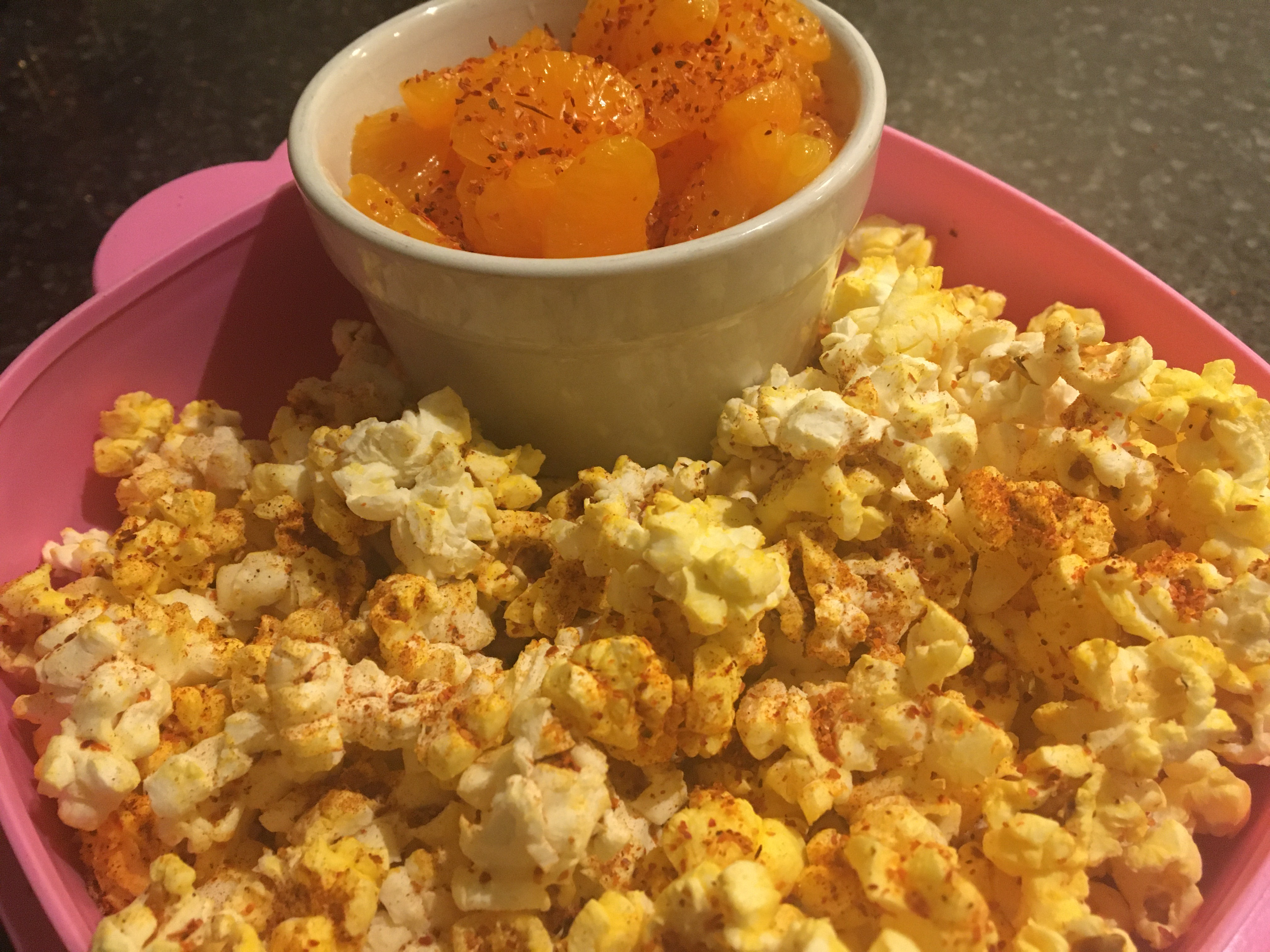 Mandarin oranges in a bowl of popcorn, both sprinkled in Tajín powdered seasoning.